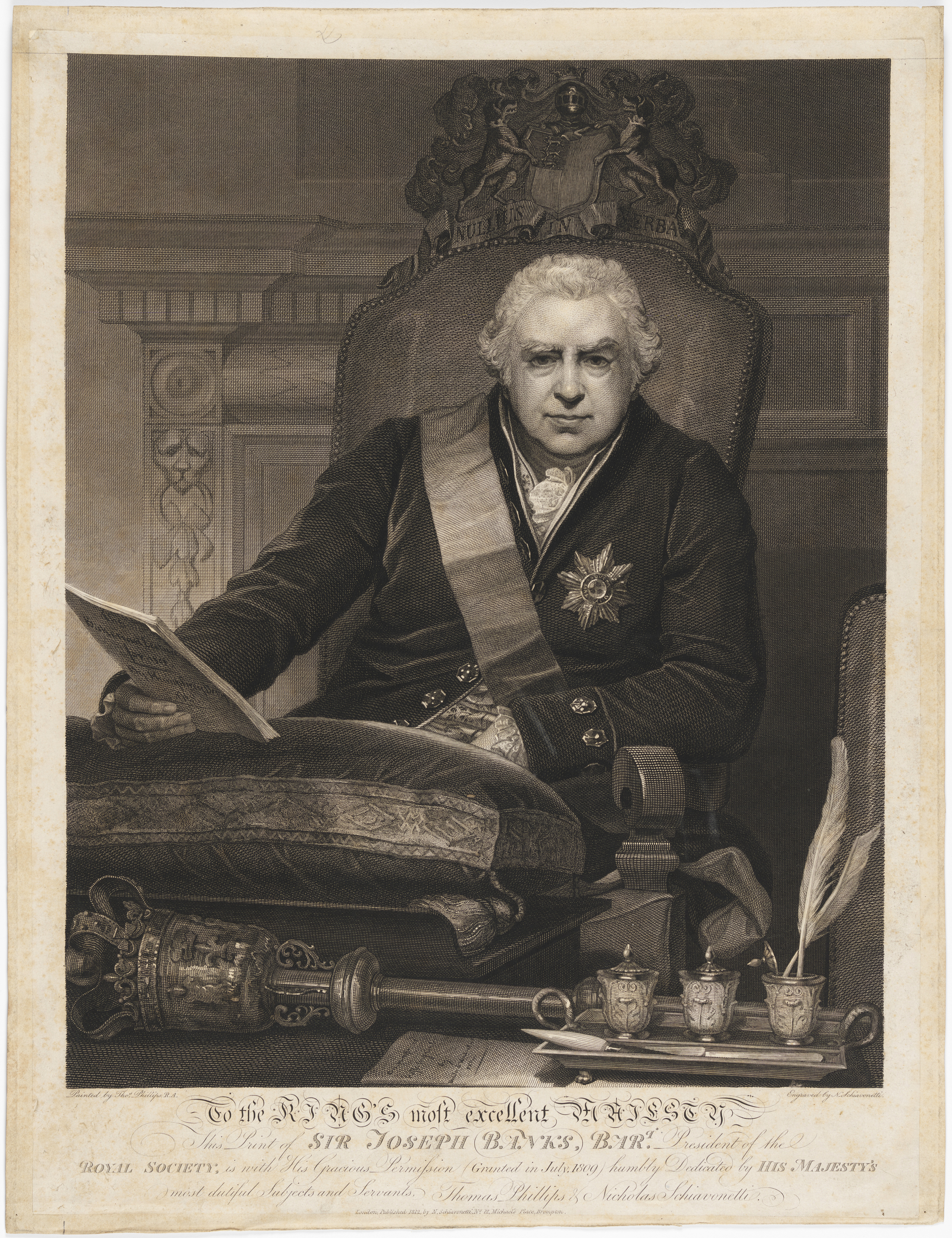 This is an image of the official portrait of Sir Joseph Banks, President of the Royal Society. It is a 43.2 x 34.2 cm engraving.